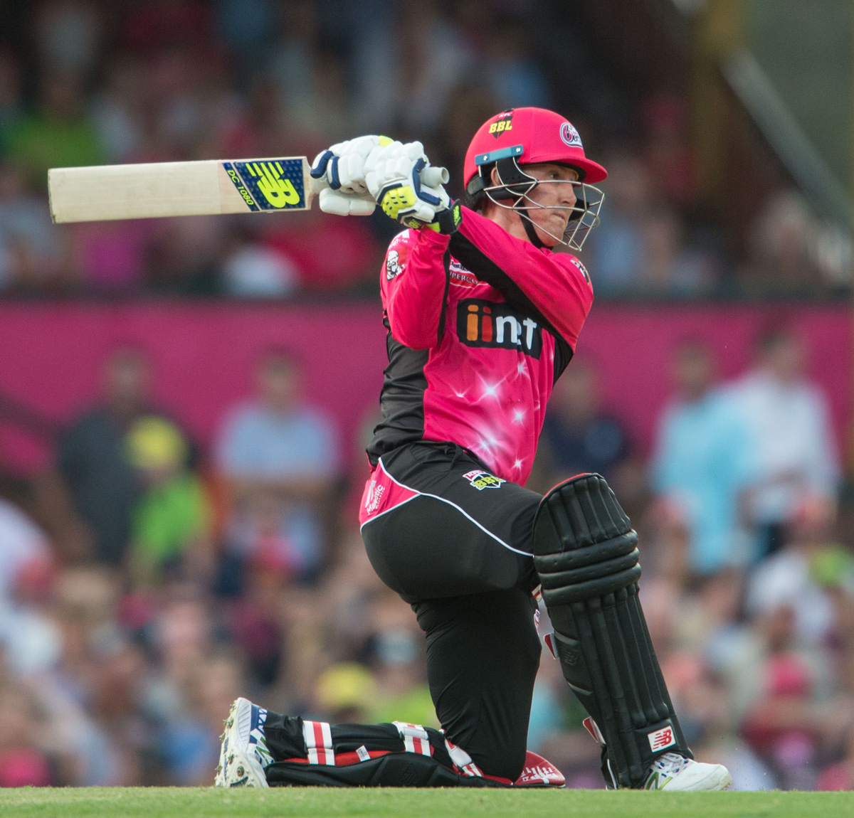 Nic Maddinson playing for the Sydney Sixers at the Sydney Cricket Ground